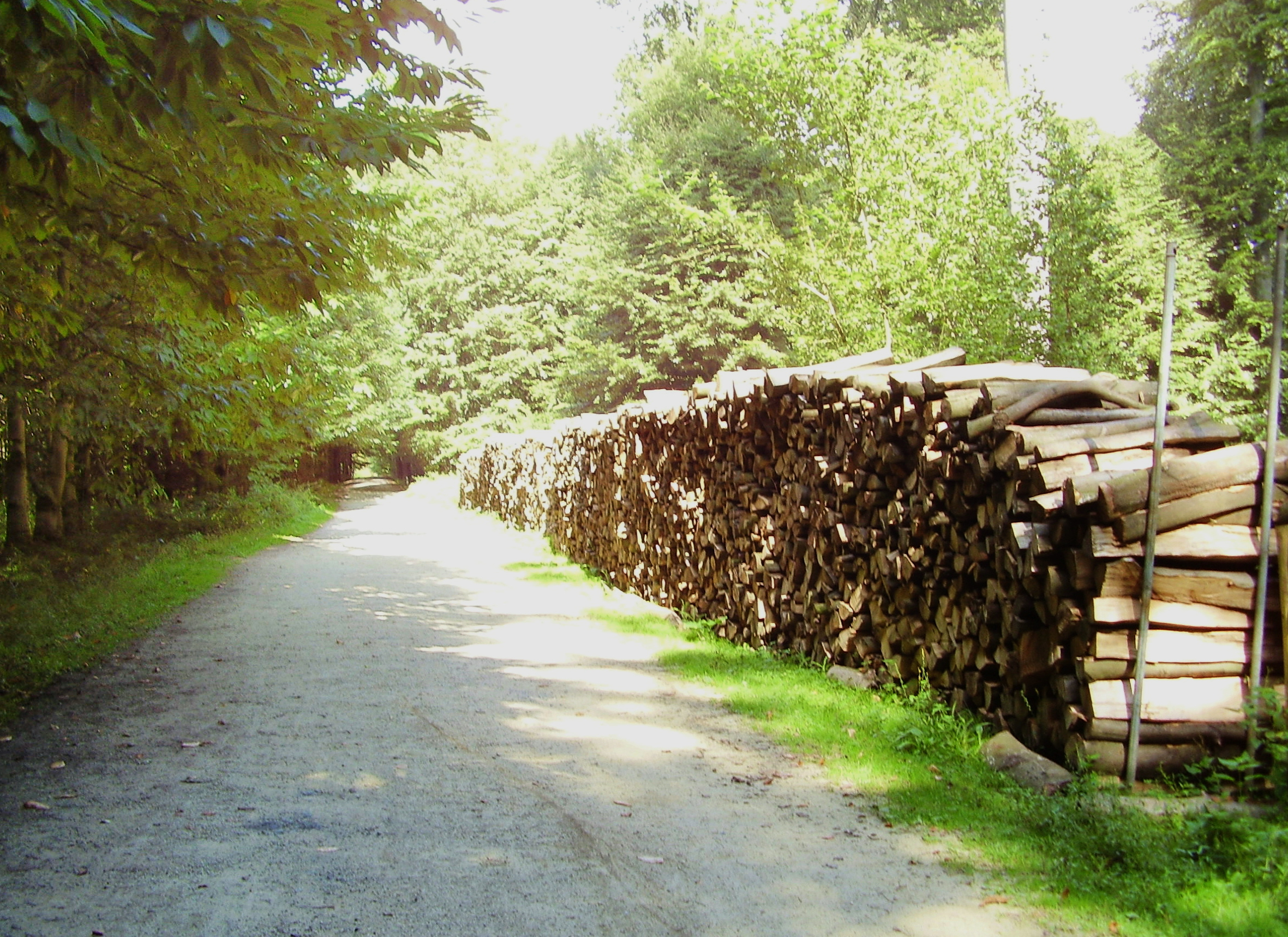 Description: Forêt de Soignes (Bruxelles) Author: User:Ben2 Date of creation: 29 août 2006 Source: Photo personnelle